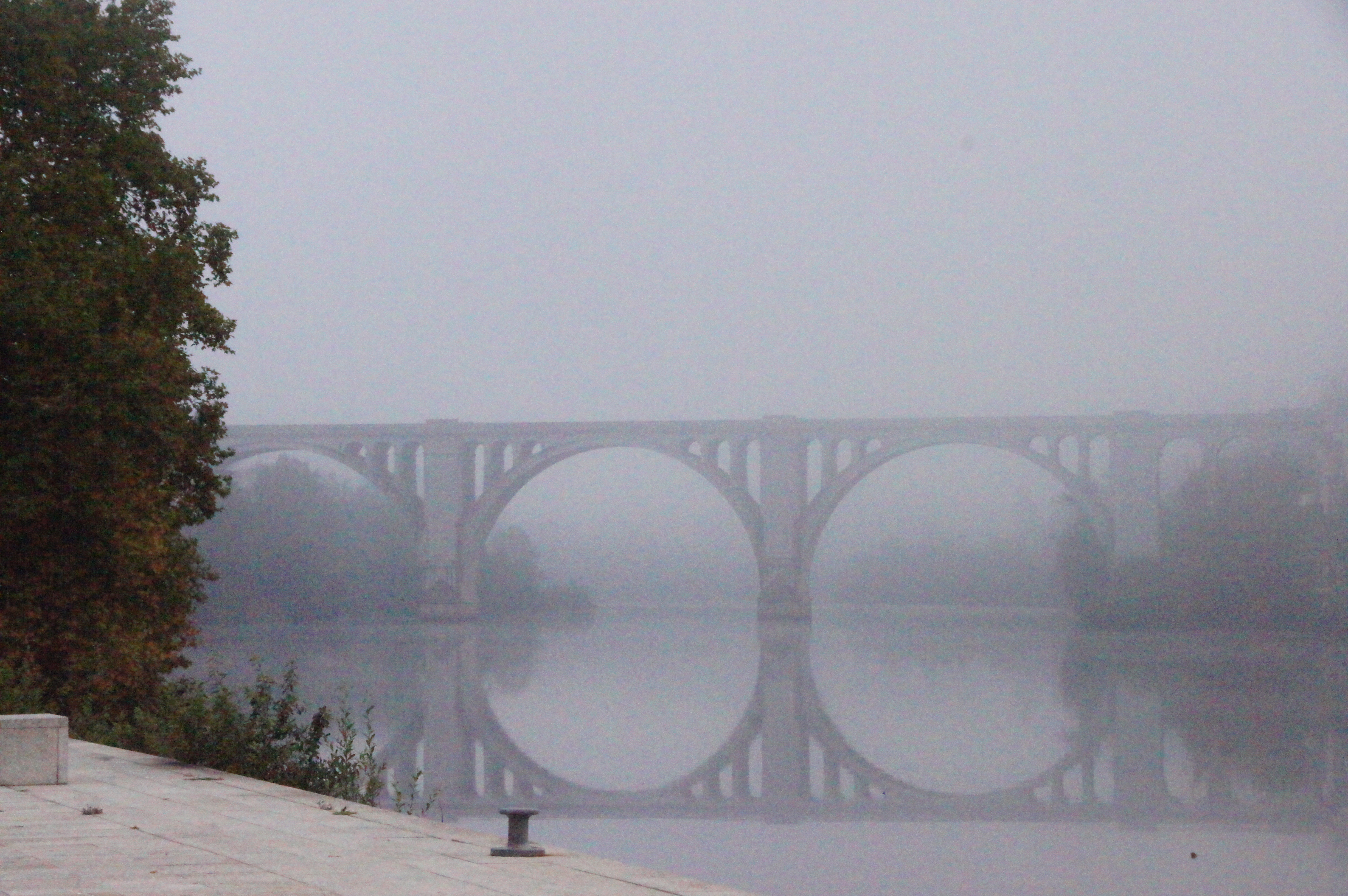 MV Douro Prince. A misty morning at Entre-os-Rios.